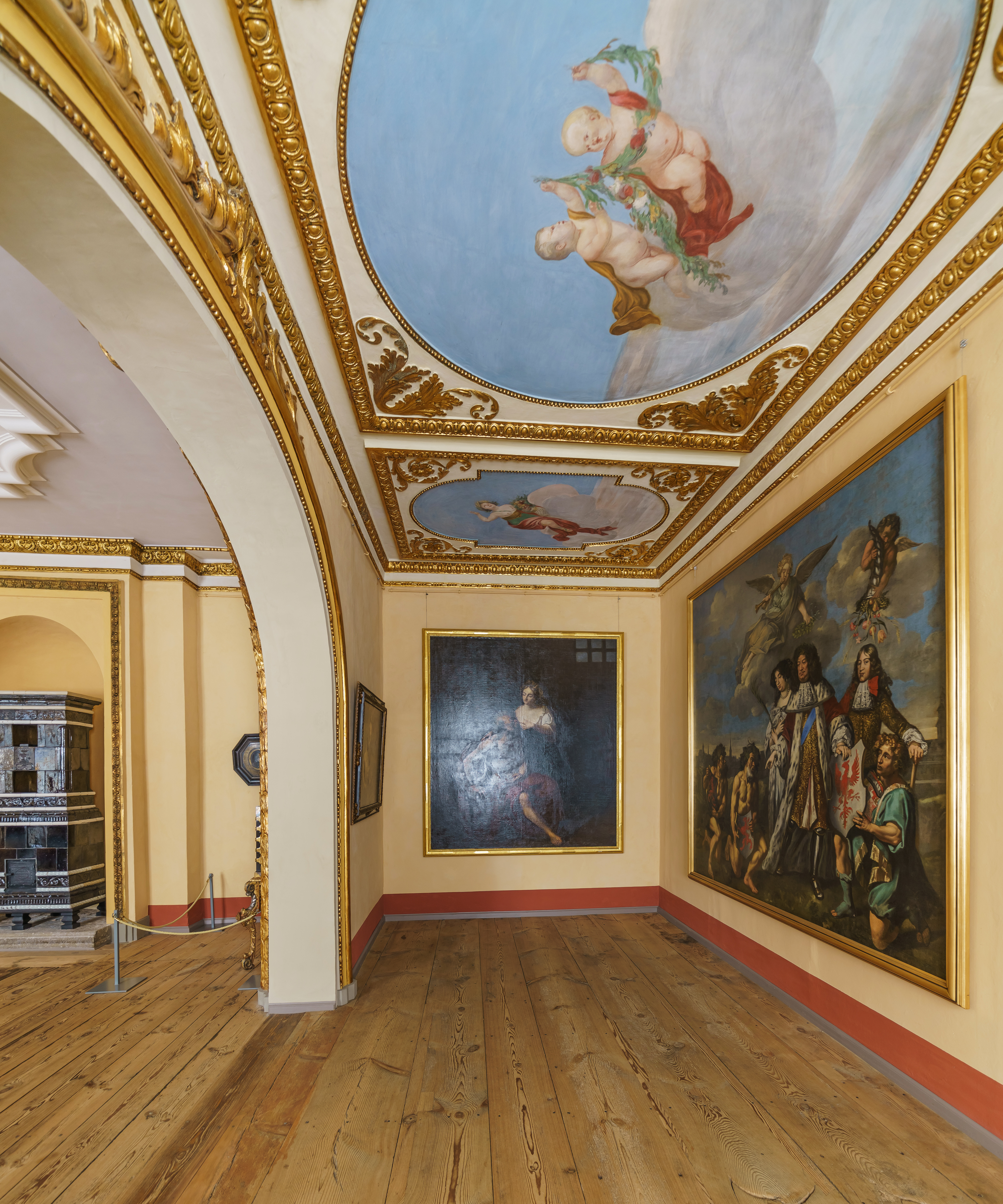 Interior of Caputh Castle near Potsdam, Germany